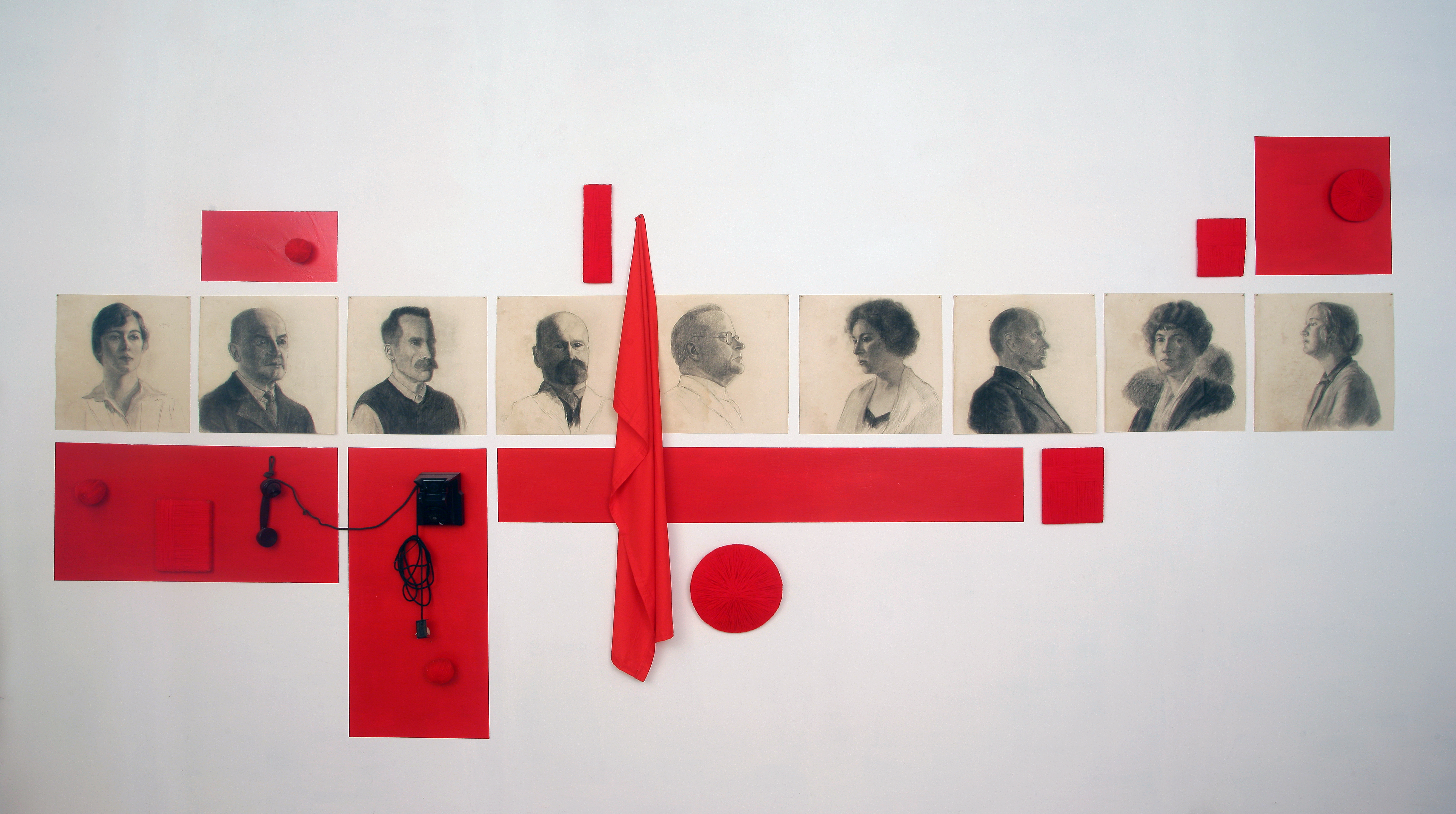 ph. Mark E. Smith